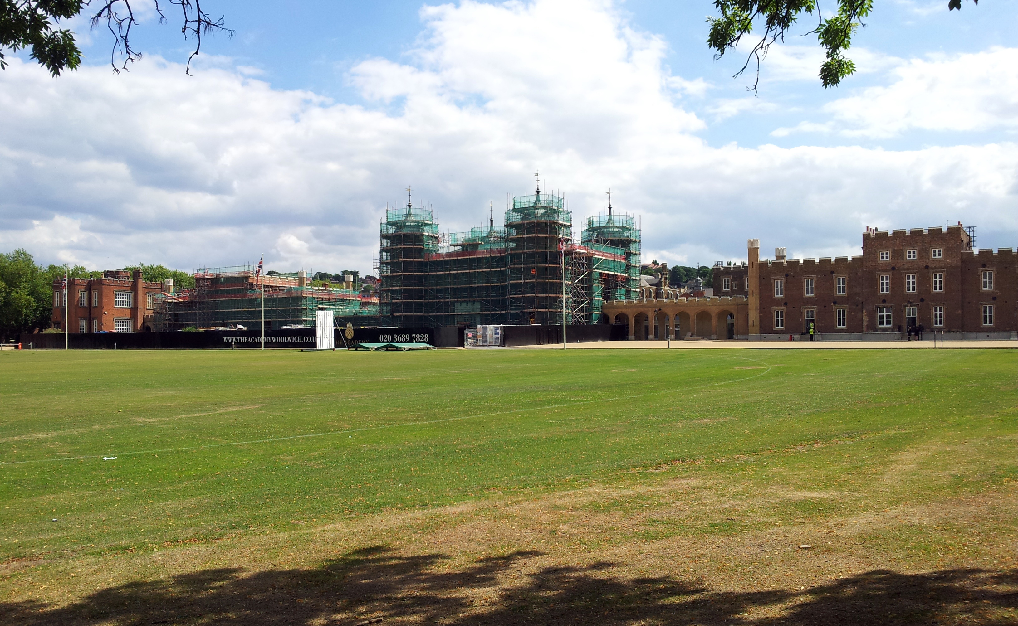 View from the southwest of the former Royal Military Academy in Woolwich, Southeast London. The buildings are now being developped into apartments.